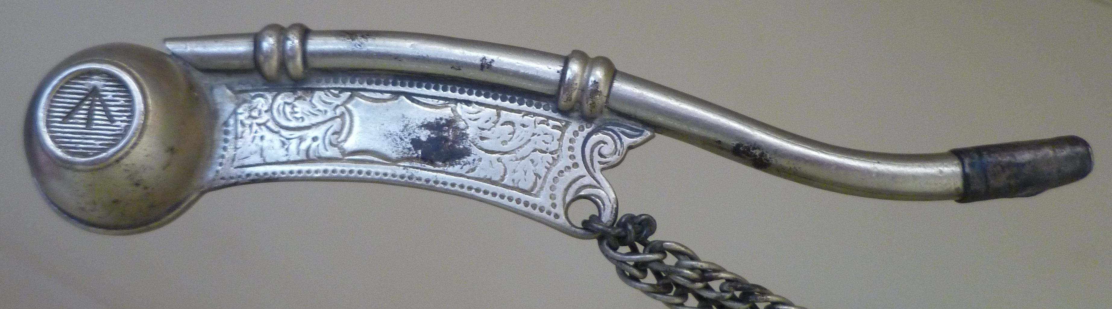 A well-used bosun's pipe from WW1 (or earlier), issued by the British War Office. It was owned by Petty Officer Ernest Frederick Holkham who was at the Battle of Jutland onboard HMS Acasta (1912)